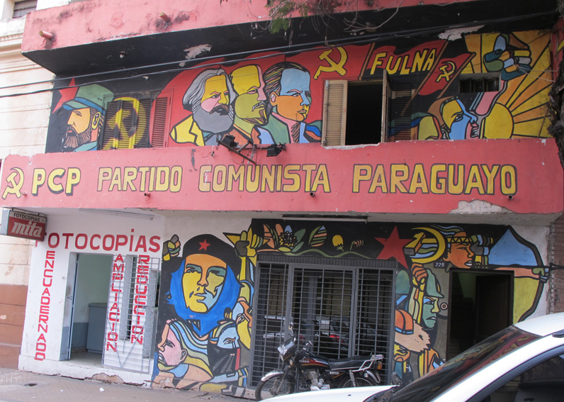 Office of the Paraguayan Communist Party, Asuncion.